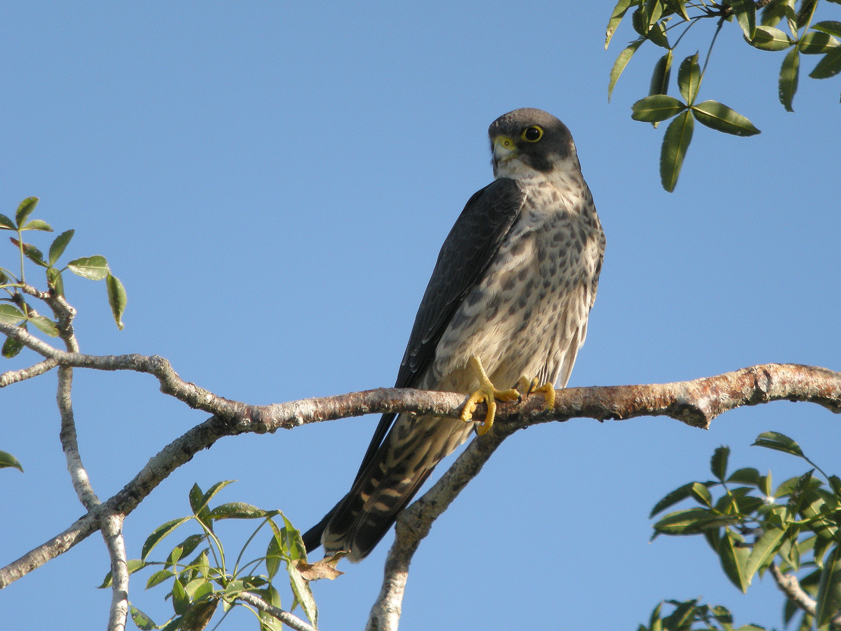 A sustantial proportion of the global population of this falcon species winters in Madagascar. In January 2010, on my way to and from Kirindy, I spotted several dozens of these birds foraging around the huge Adansonia trees in the famous "Allée des Baobabs". Swarowski 80 HD 30 X, Coolpix P5100 (Adapter DCB)